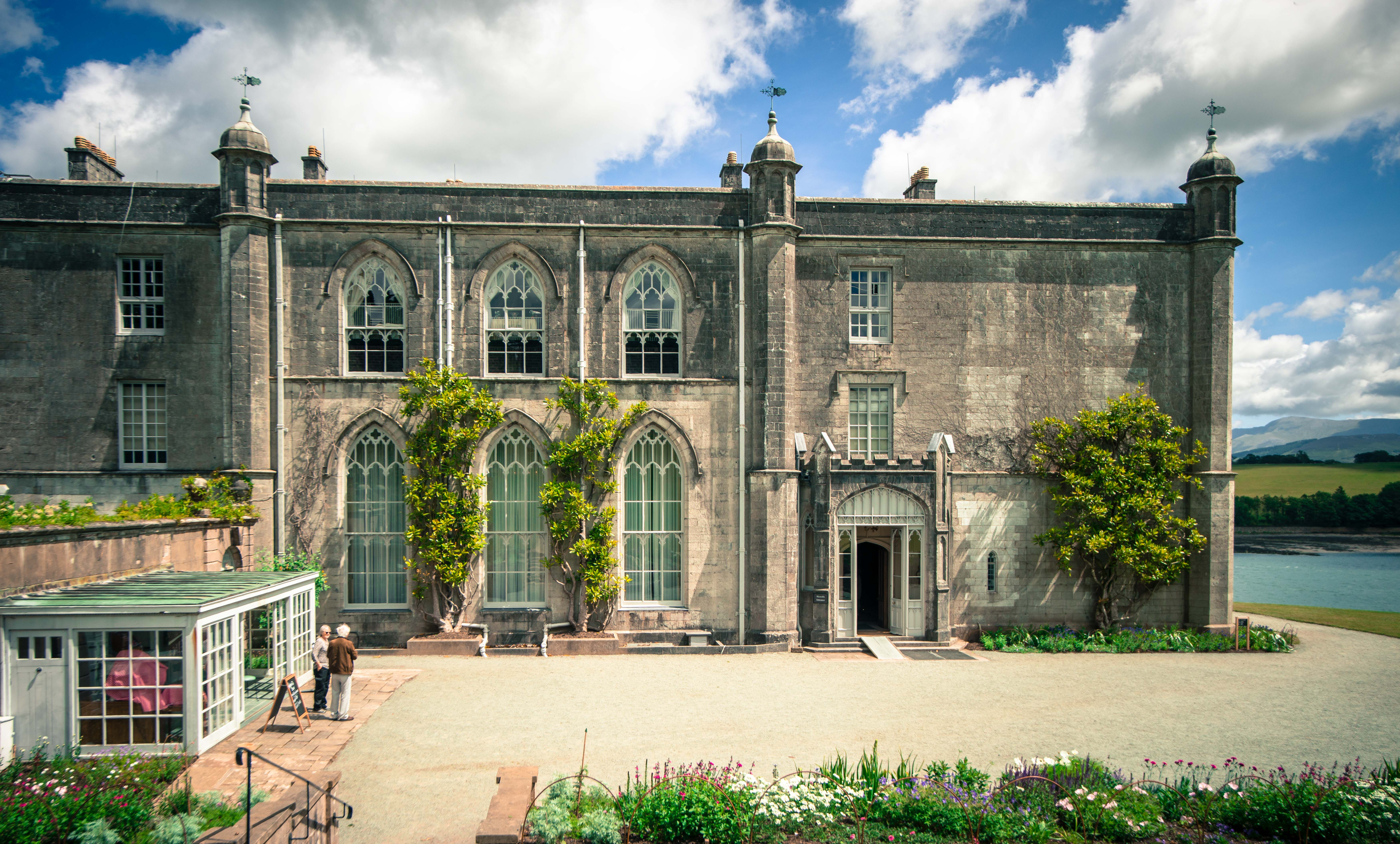 The exterior of Plas Newydd, Anglesey (National Trust)